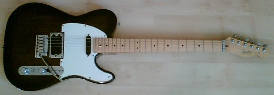 1990 Fender Telecaster Plus